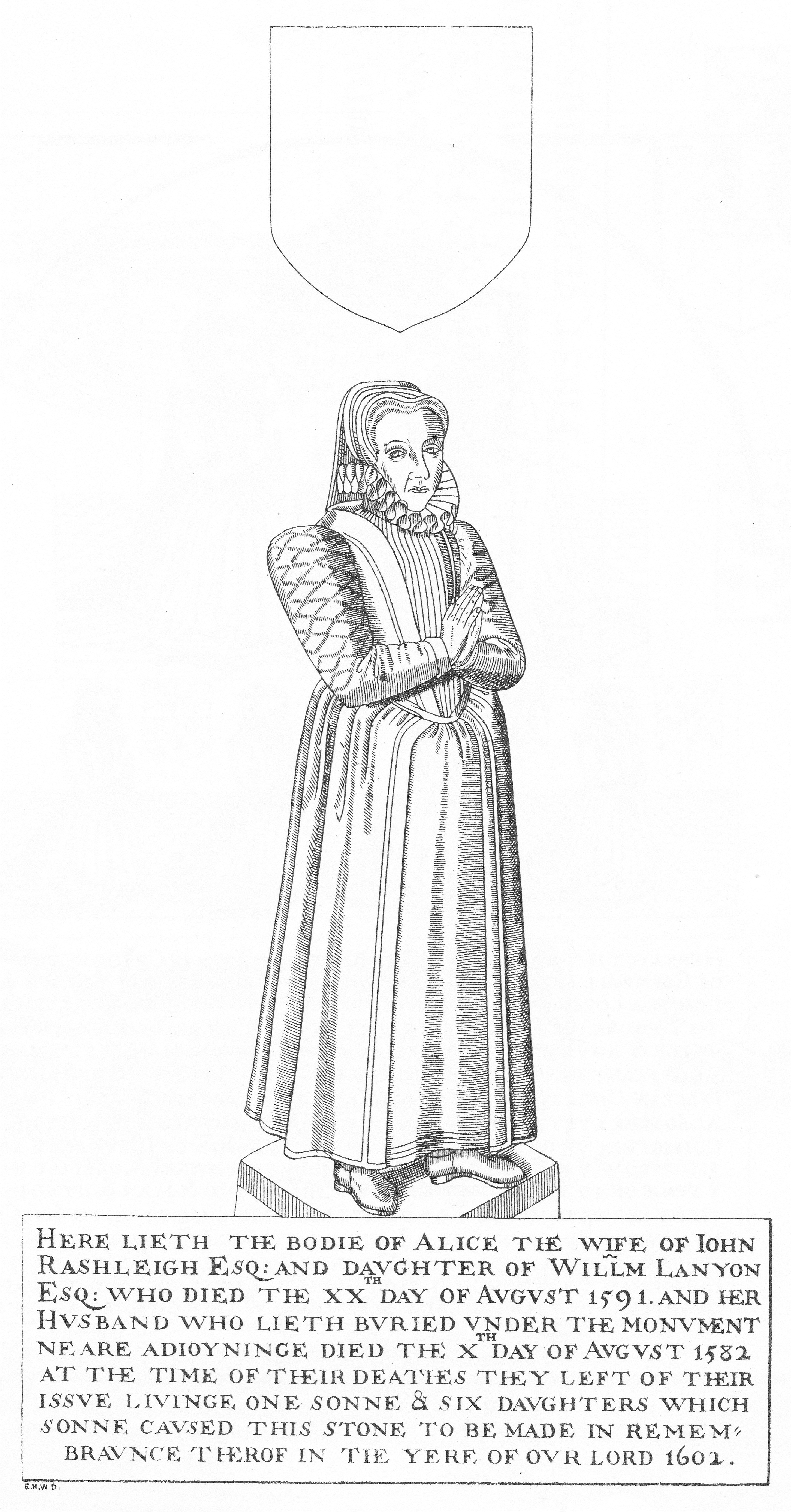 1602 Monumental brass of Alice Lanyon (d.1591), wife of John Rashleigh (d.1582) of Menabilly and mother of John Rashleigh (d.1624); Fowey Church, Cornwall. Embedded in a stone in the nave of Fowey Church. Above her head is an indentation for a now lost brass heraldic escutcheon, and below her feet is a plate bearing the following inscription:(Dunkin, p.55) "Here lieth the bodie of Alice the wife of John Rashleigh Esq. and daughter of Will'm Lanyon Esq. who died the XXth day of August 1591 and her husband who lieth buried under the monument neare adjoyninge died the Xth day of August 1582. At the time of their deathes they left of their issue livinge one sonne & six daughters which sonne caused this stone to be made in remembraunce therof in the yere of Our Lord 1602"